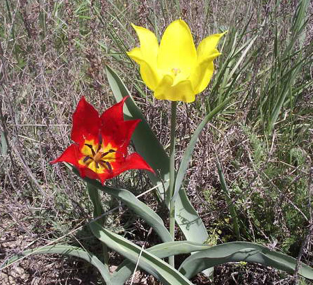 Tulipa schrenkii, Bogdo-Baskunchak Nature Reserve, Astrakhan region, Russia